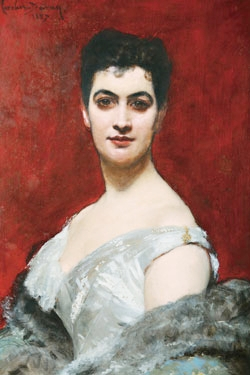 Eufrásia Teixeira Leite at 30 years old - Brazilian philantropist who made her heritor many benevolent and educational institutions in the city of Vassouras, Rio de Janeiro State, Brazil.